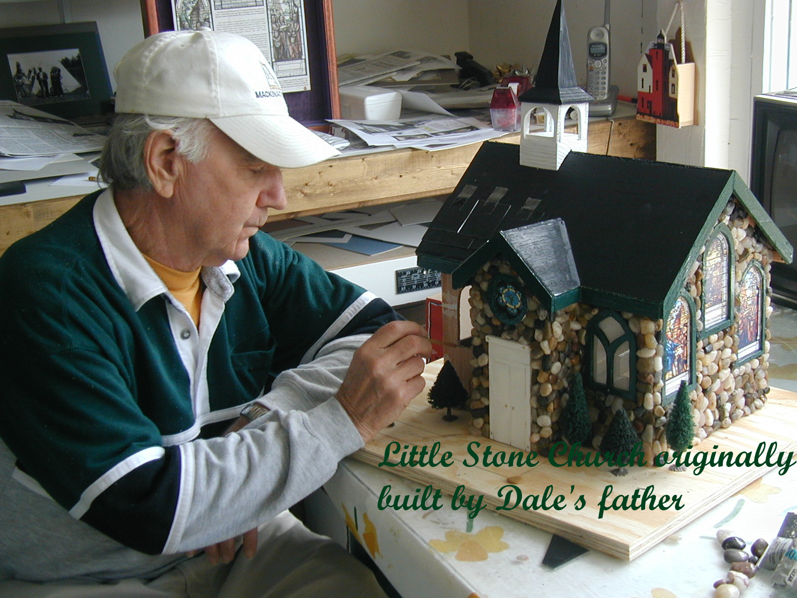 Dale Gensman working on a museum piece for the Stuart House Museum